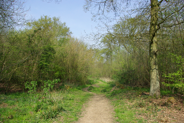 Path, Garnetts Wood Garnetts Wood is owned by Essex CC and has public access. This path is actually in the far east part called Barnston Lays.